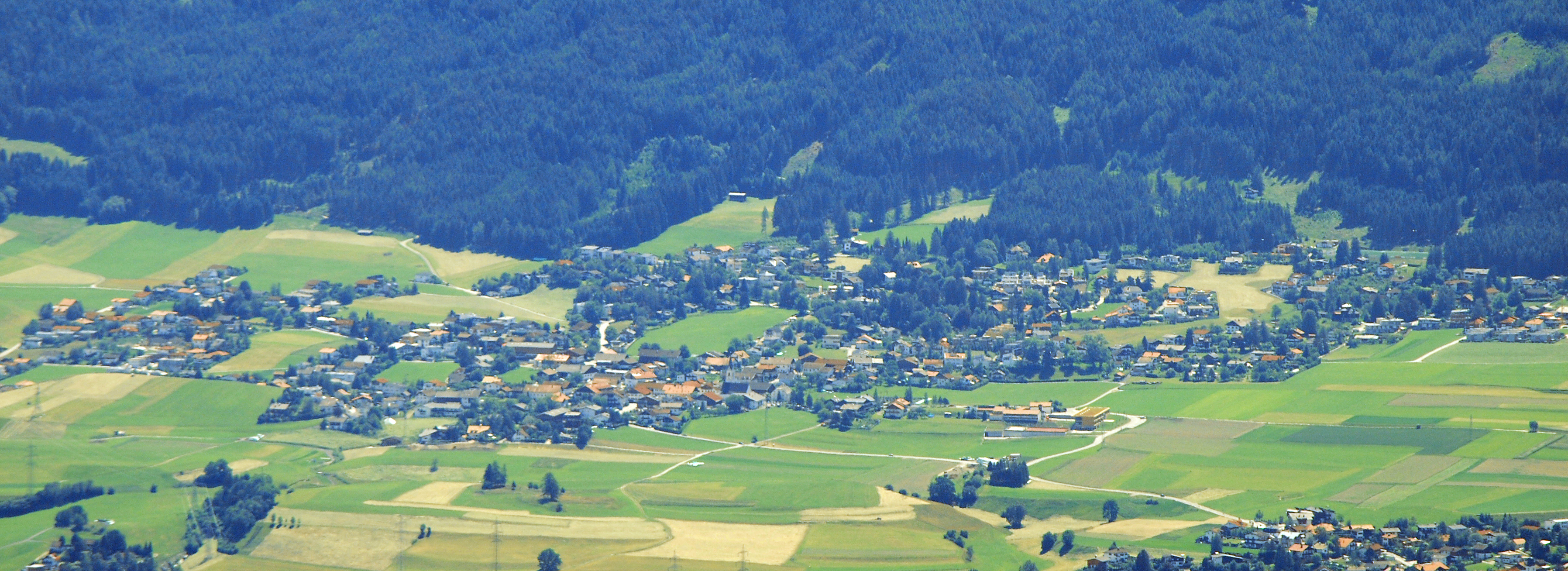 Sistrans from NW (Brandjoch)